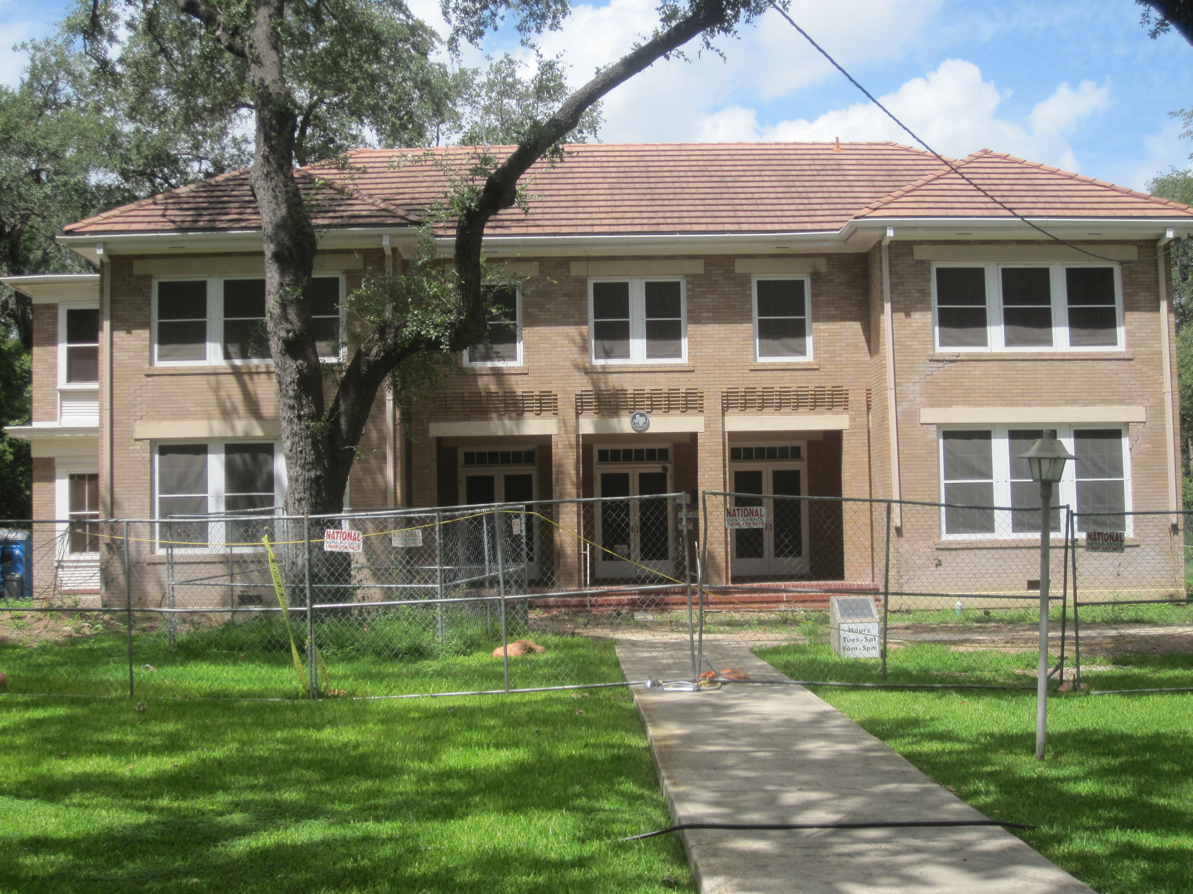 I took photo with Canon camera in Uvalde, TX.